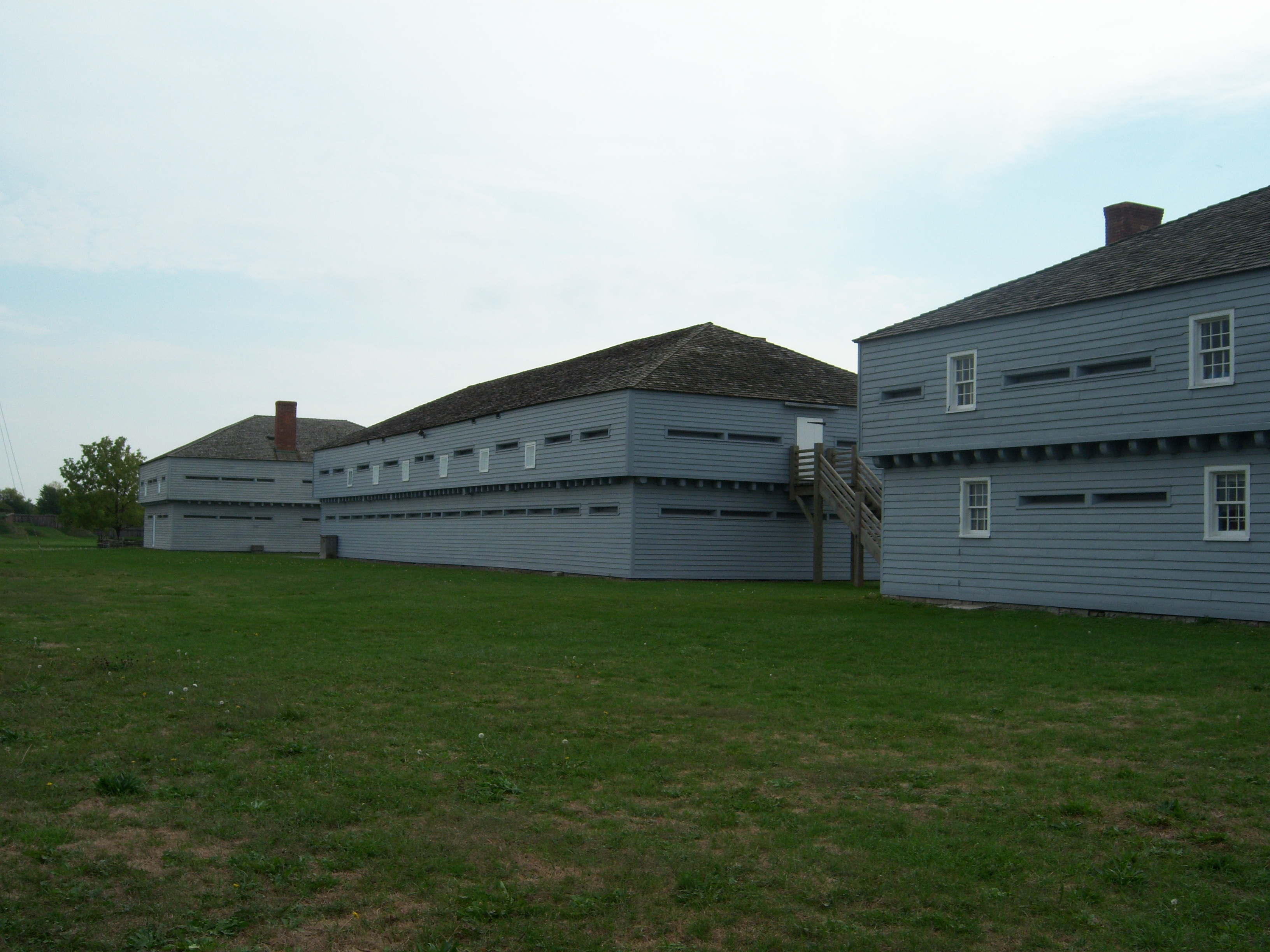 Fort George, Niagara